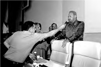 Argentine journalist Coco López (1942-) with Cuban statesman, and politician Fidel Castro (1926). 2001 photograph.